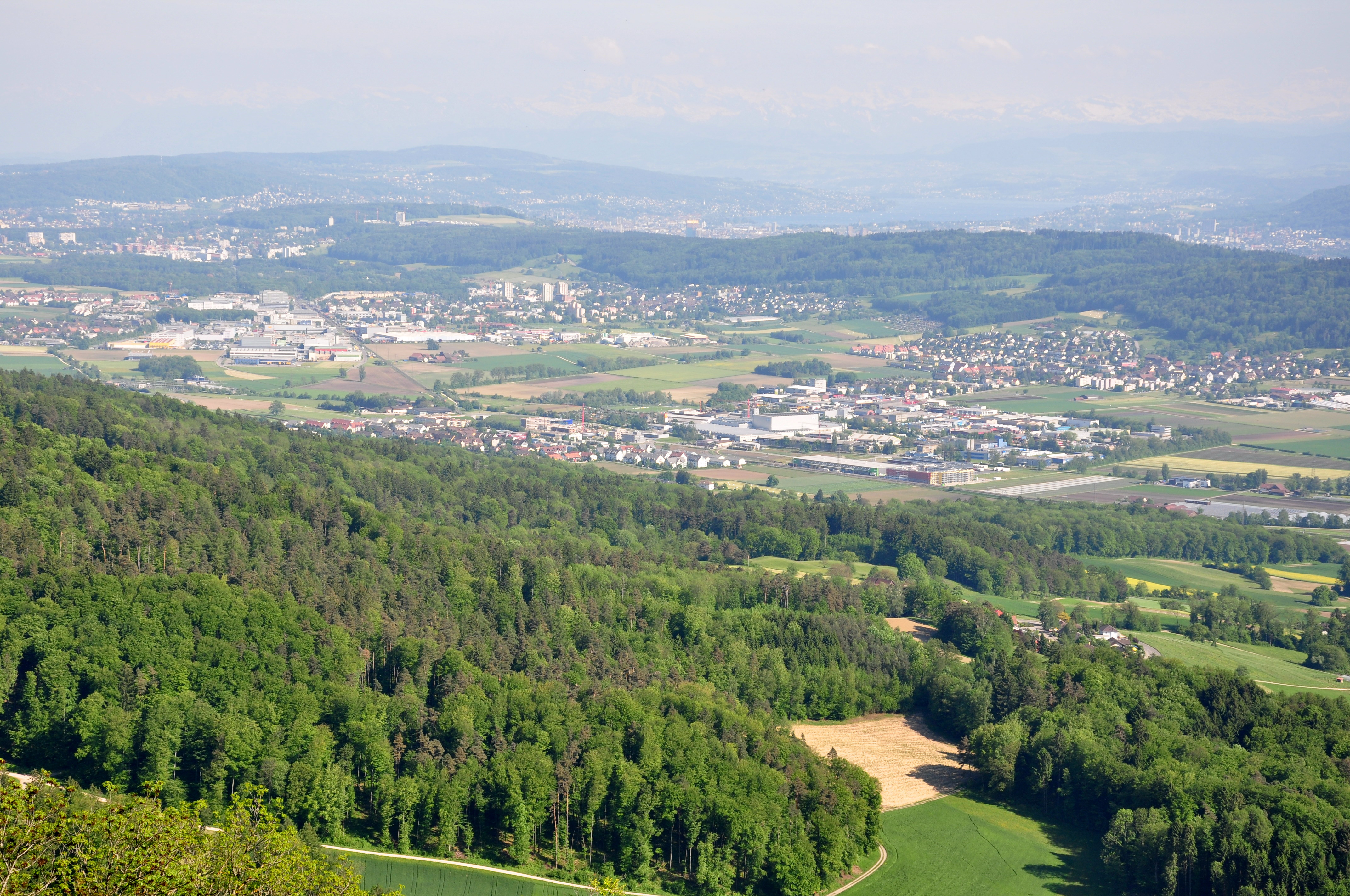 Dällikon (to the right) and Regensdorf respectively Pfannenstiel and Zürichsee in the background, as seen from Burghorn respectively Jura-Höhenweg on Lägern (Switzerland)